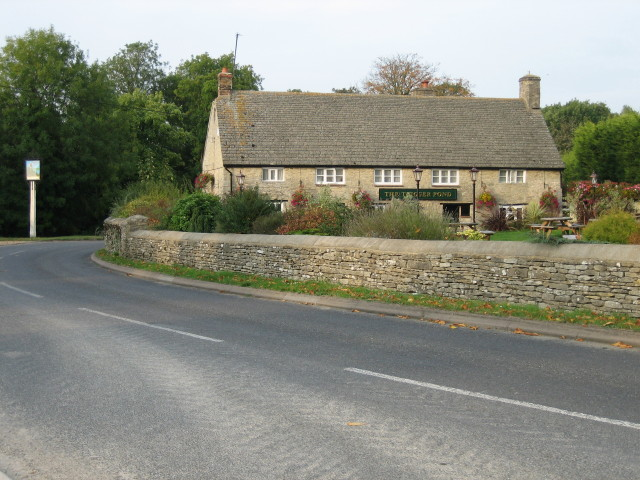 The Trigger Pond public house, Bucknell, Oxfordshire